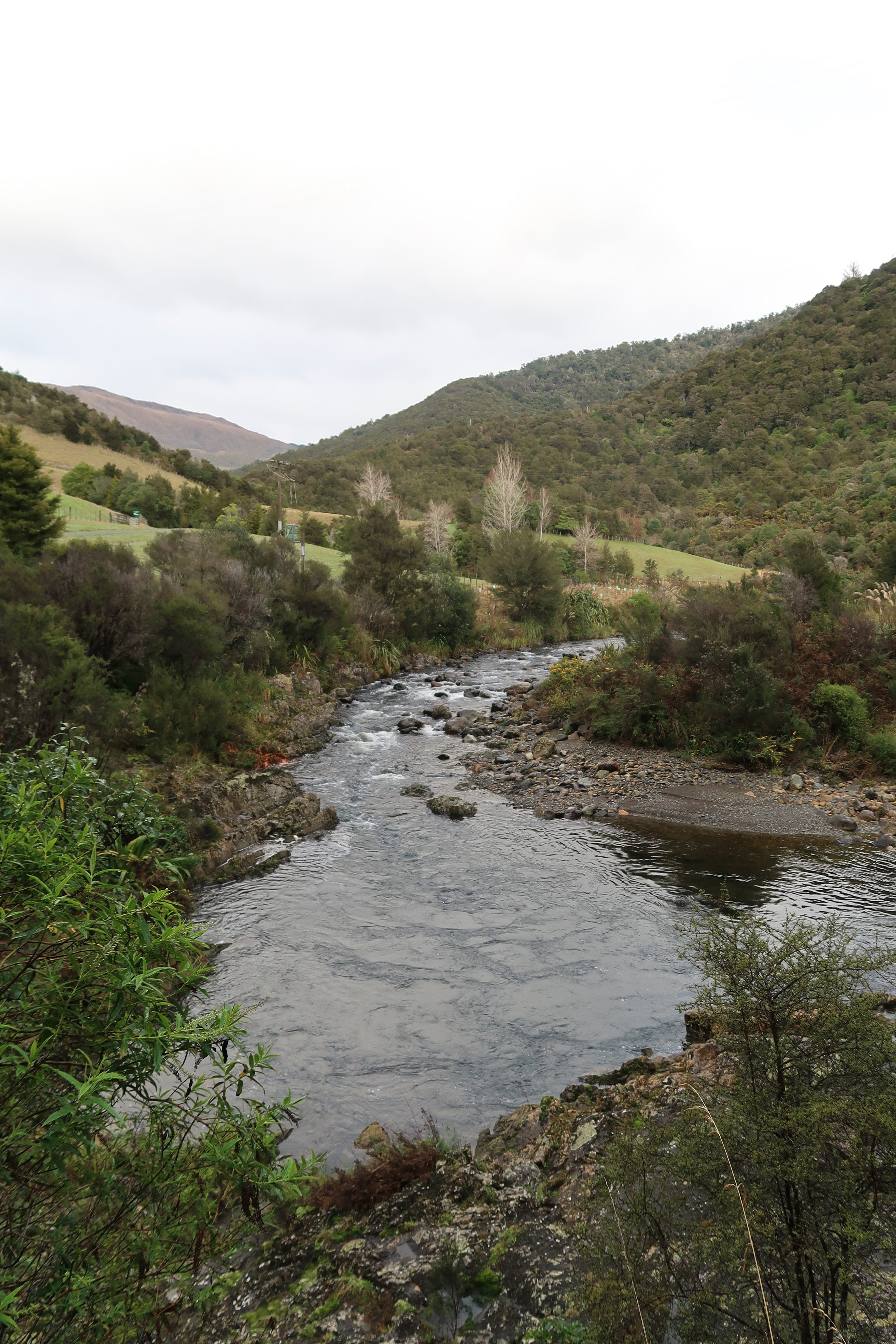 South branch of the Maitai River, Nelson, near Maitai Dam